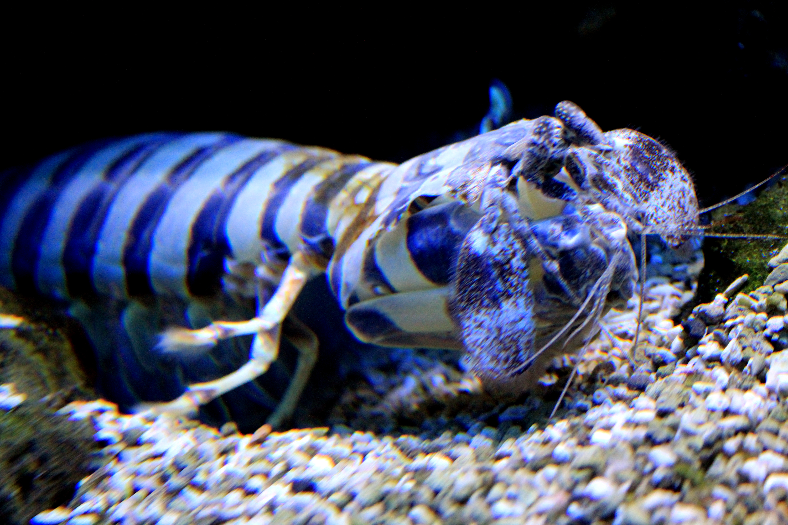 Shrimp Lysiosquillina maculata, (Lysiosquillina maculata) in Prague sea aquarium “Sea world”, Czech Republic Česky: Korýš strašek - Lysiosquillina maculata, Lysiosquillina maculata v pražském mořském akváriu Mořský svět v Holešovicích